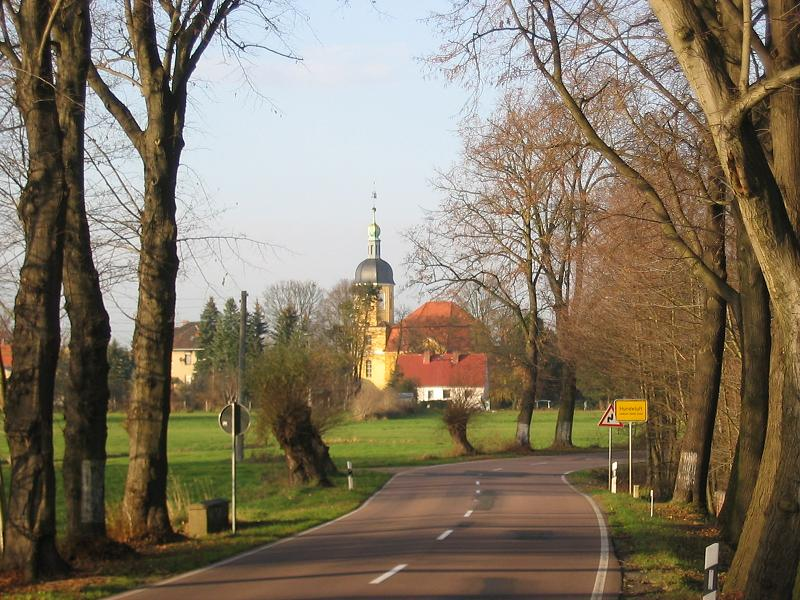 Bundesstraße 187a nearby the village Hundeluft. Hundeluft is situated in the nature park Fläming and belongs to the district Wittenberg, state Saxony-Anhalt, Germany.